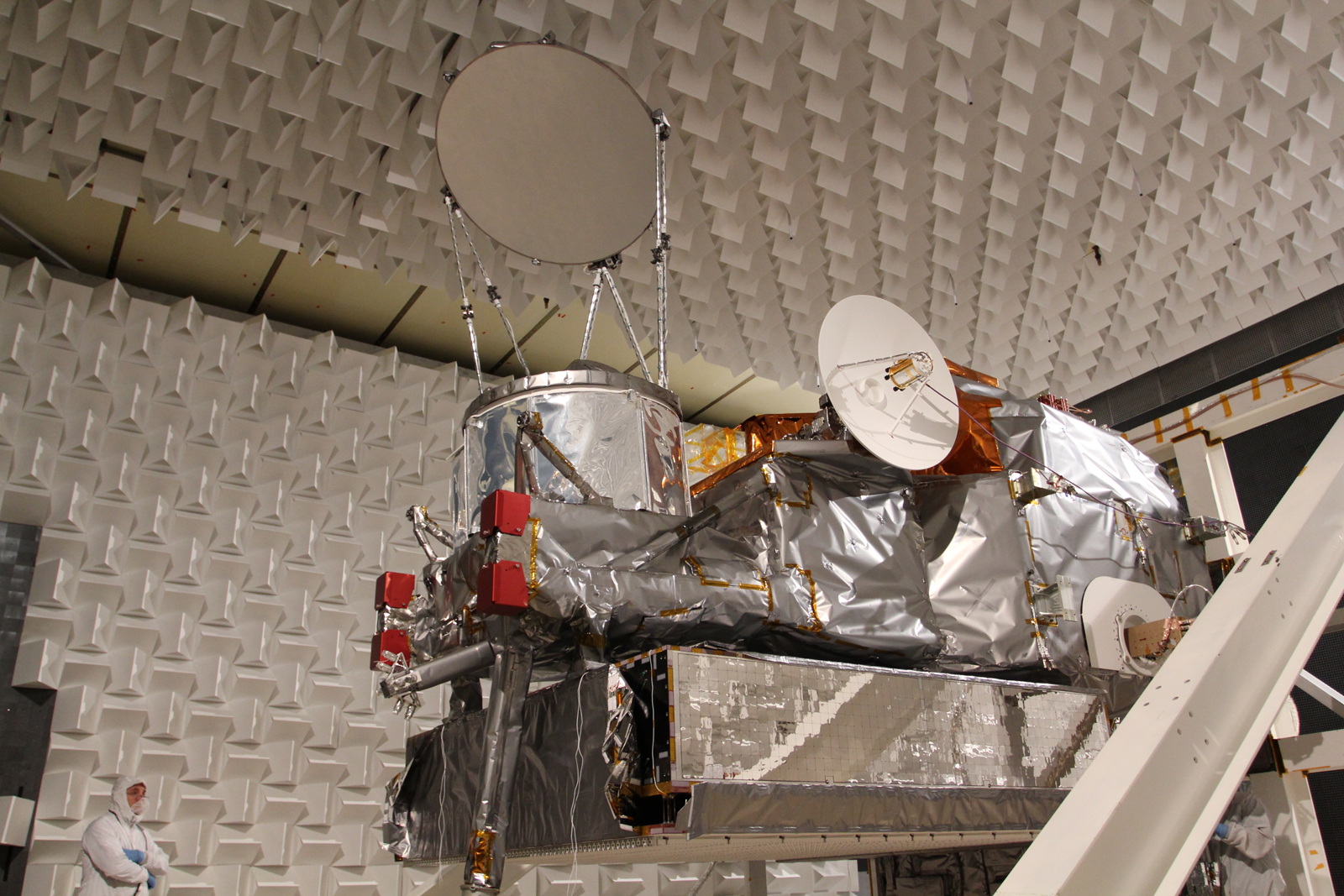 The GPM Core Observatory completed the EMI/EMC test at Goddard Space Flight Center in May 2013.